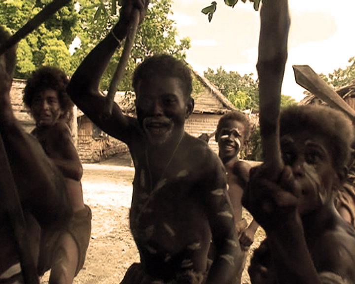 Warrior challenging visitors on Laulasi